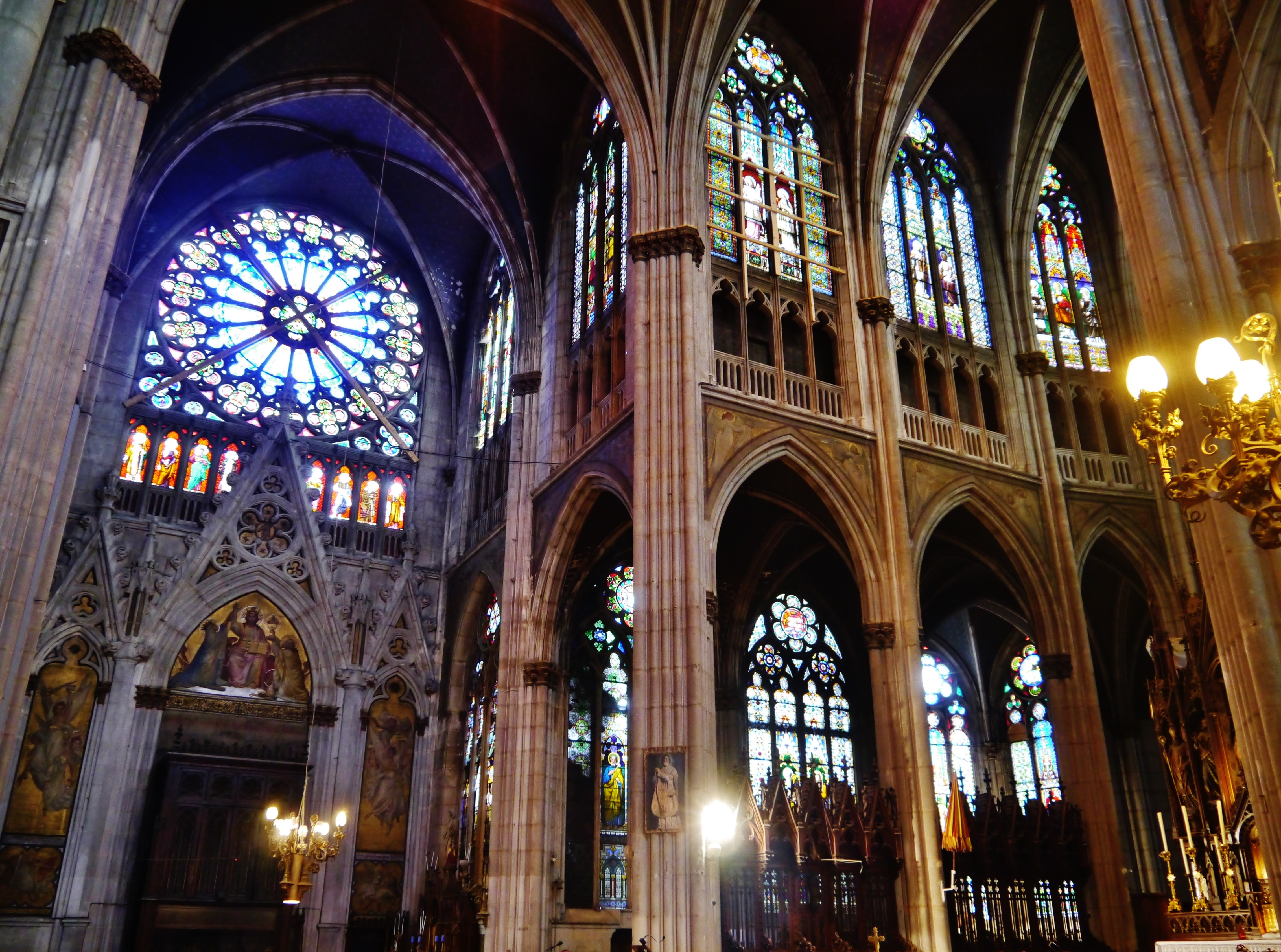 Southern Transept of the Basilica St. Epvre, Nancy, Département of Meurthe-et-Moselle, Region of Lorraine (now Grand East), France